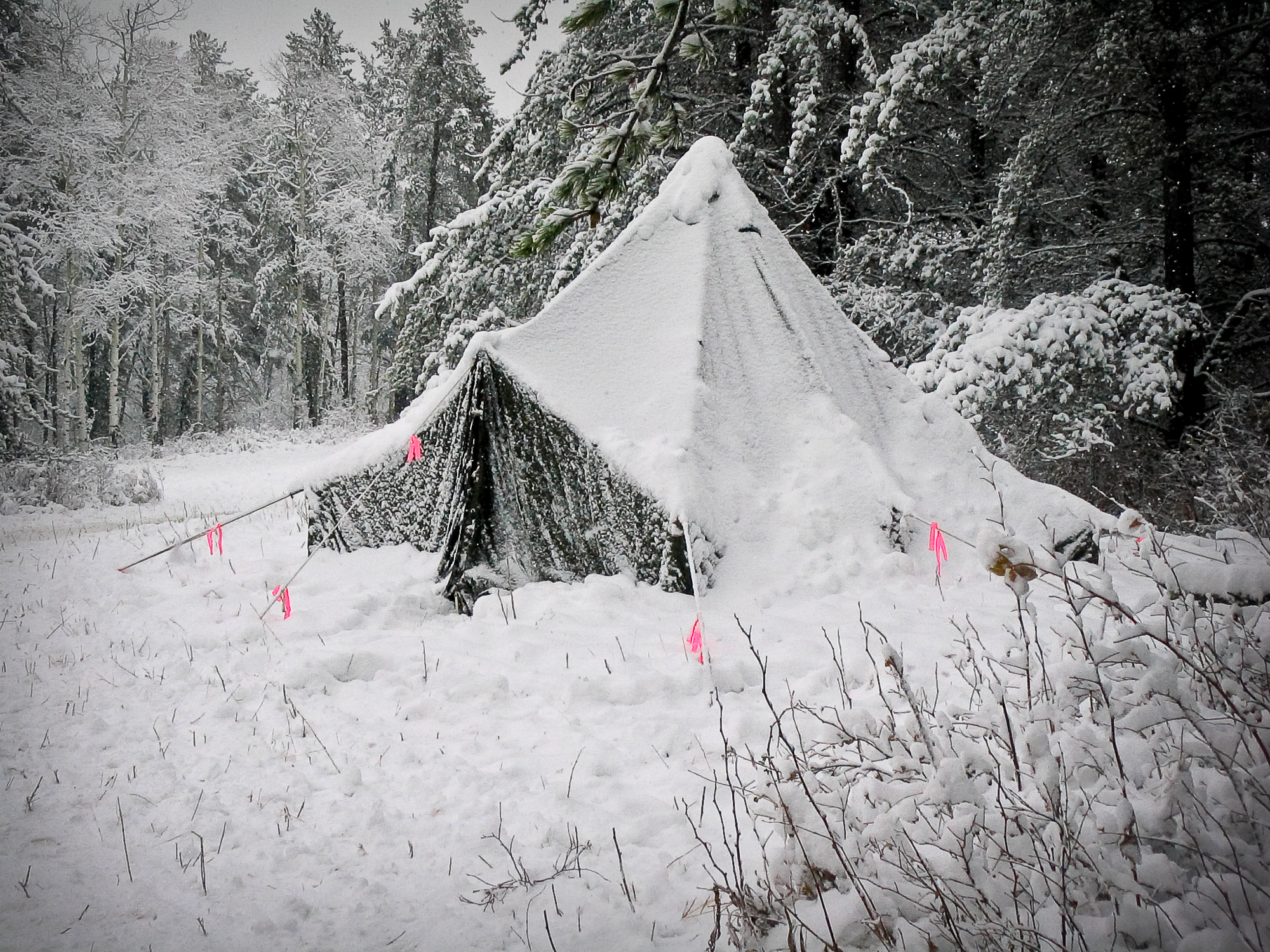 One of a series of pictures taken at 100+ 2004, an Edmonton-area Scout Camp held in October of 2004, near Devon, Alberta.